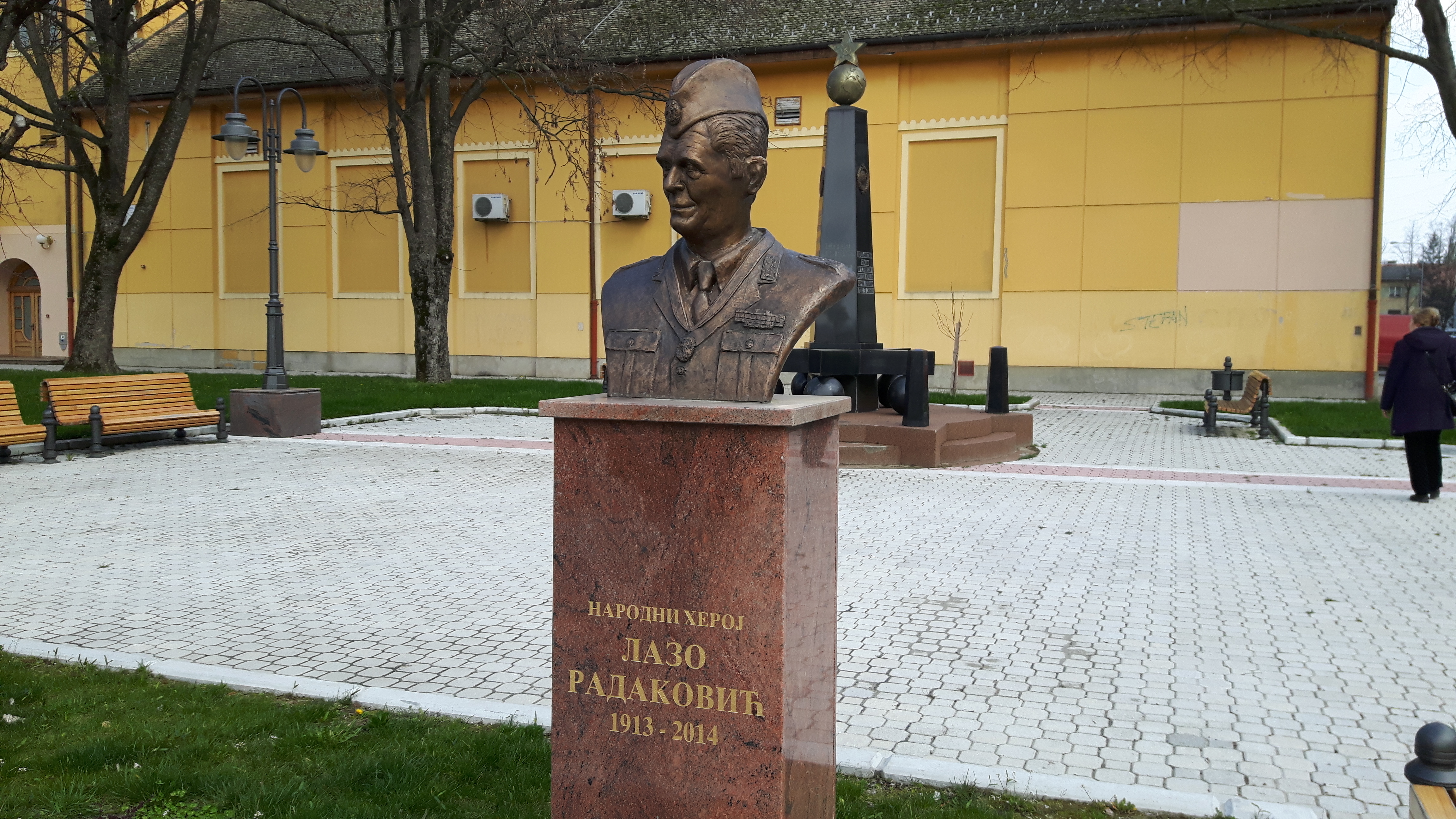 Bust of the People's hero of Yugoslavia and general of the Yugoslav People's Army, Lazo Radaković (1913-2014), Apatin.